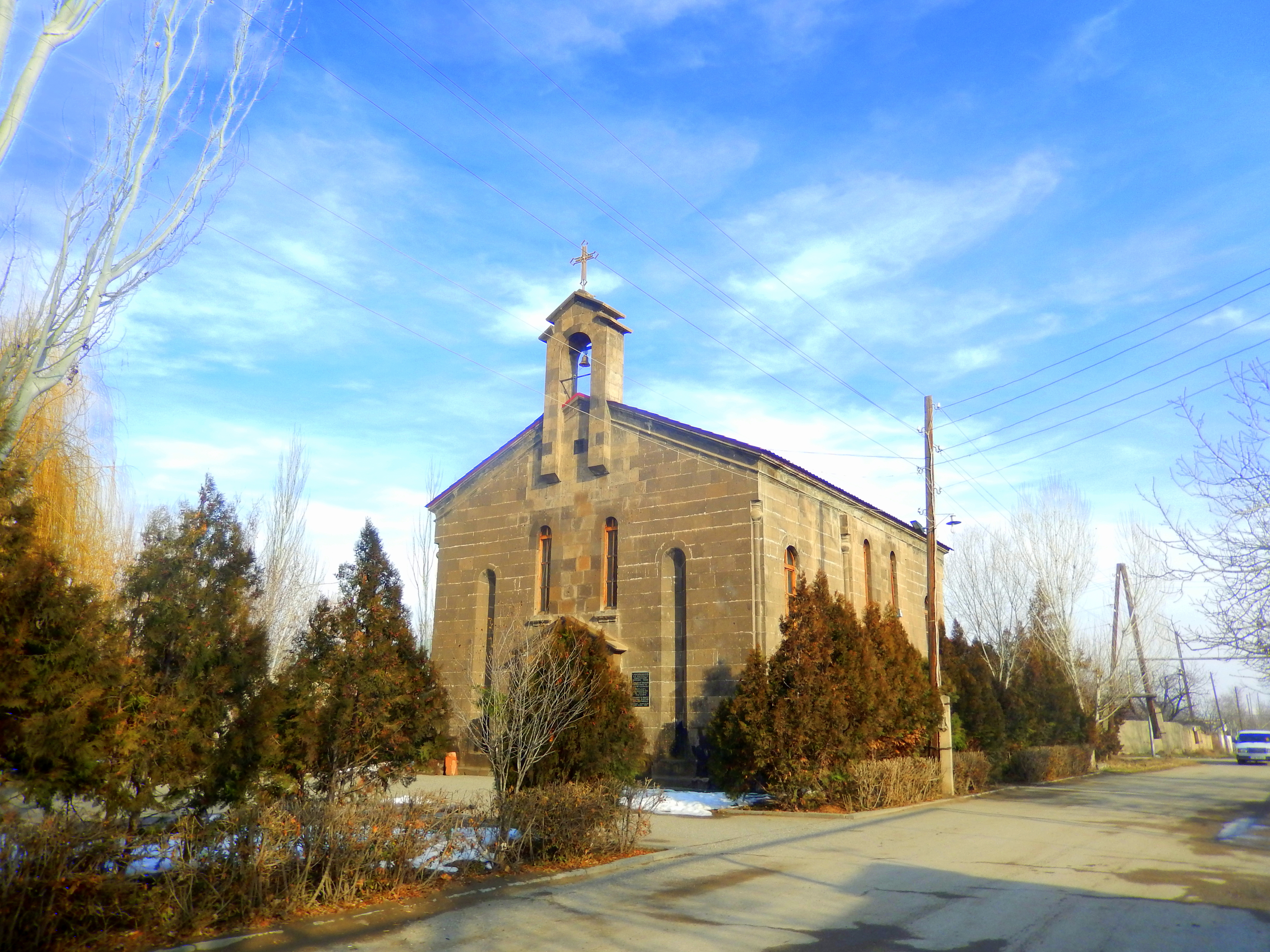 St Gevorg, Kanachout, Ararat Region 51/2